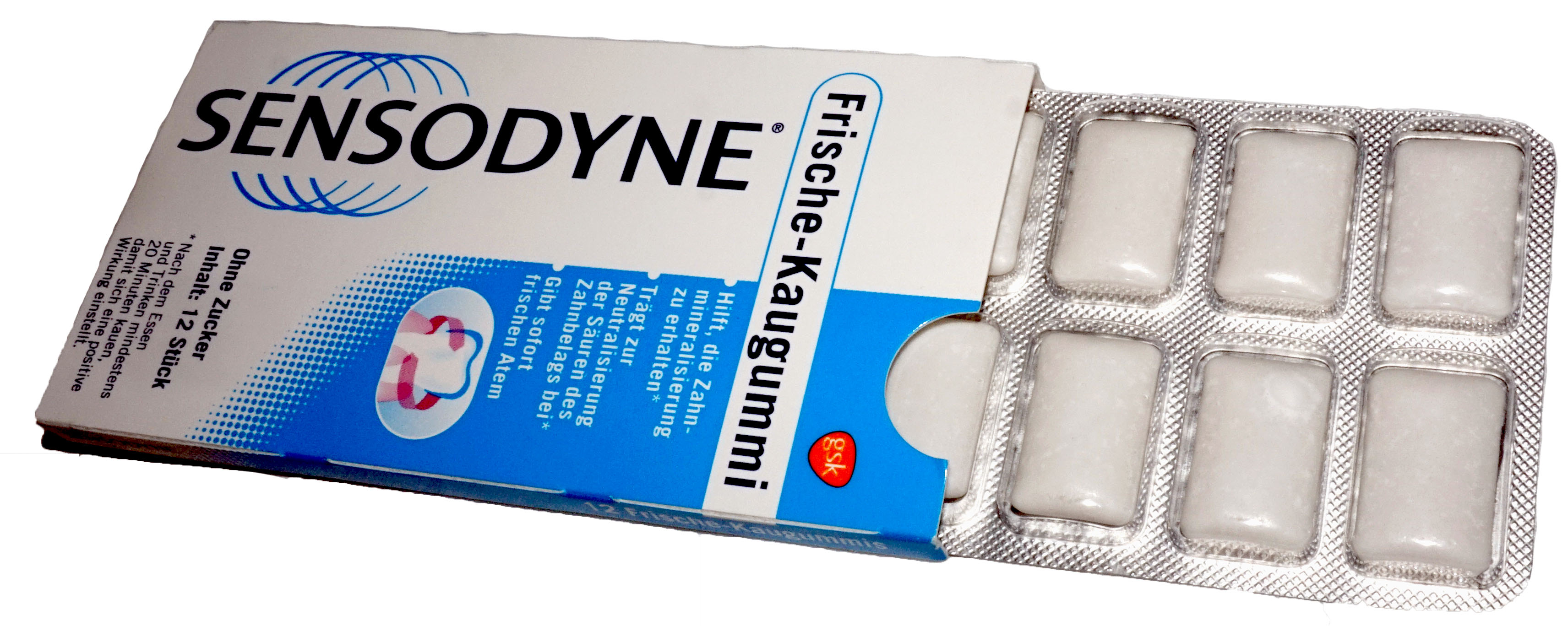 Sensodyne chewing gum in Germany. This photograph was taken with a Sony Alpha a5000.